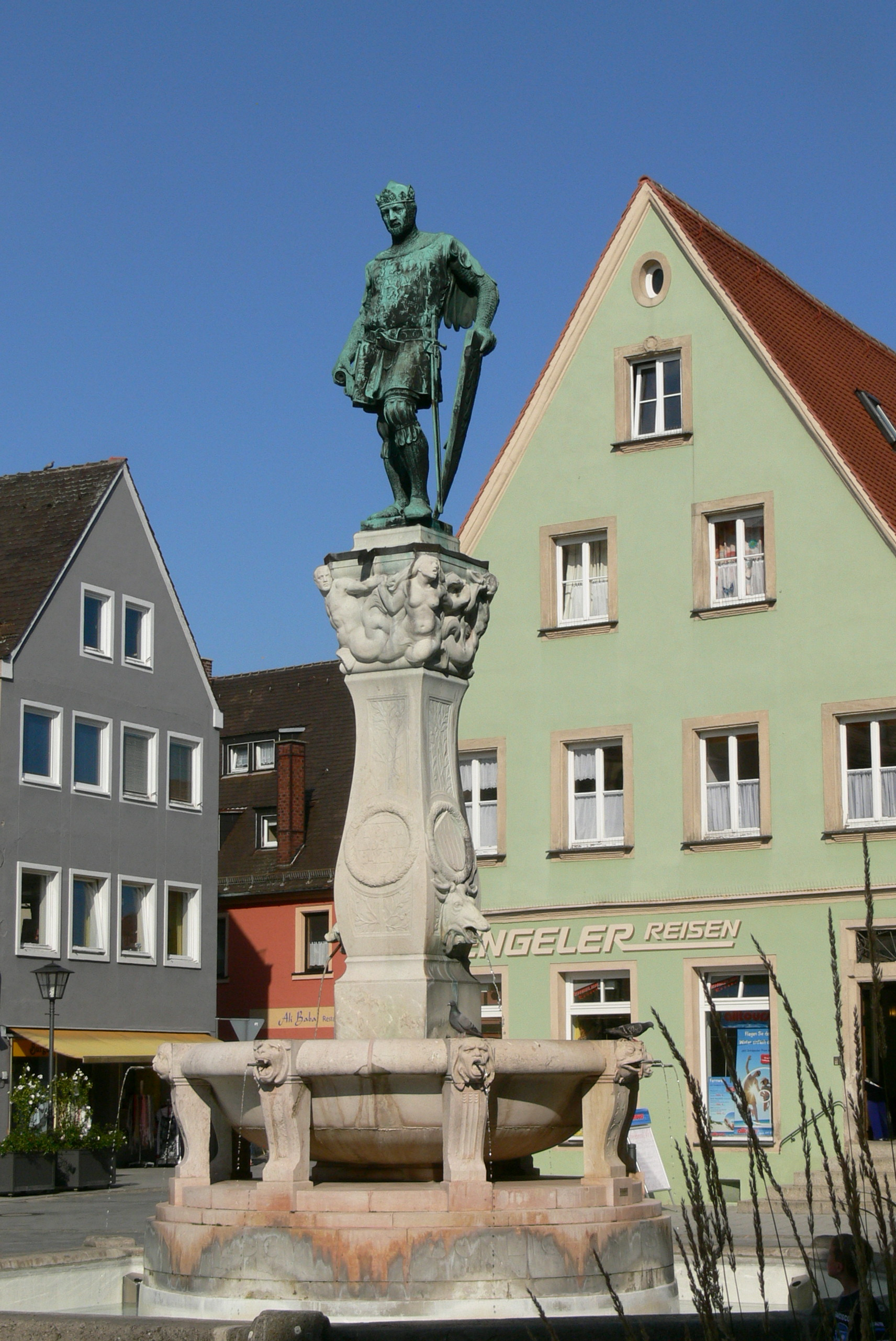 Weißenburg ( Bavaria ). Emperor-Louis-fountain ( 1903 ).